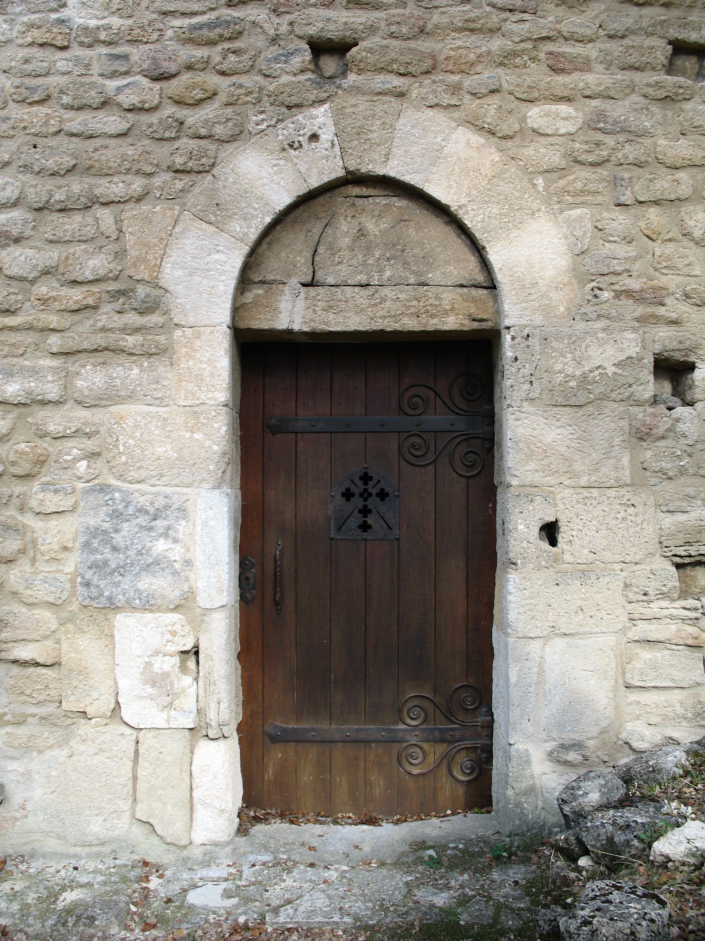 France - Provence - Bouches-du-Rhône - Chapel Saint-Martin du Sonnaillier in Aurons